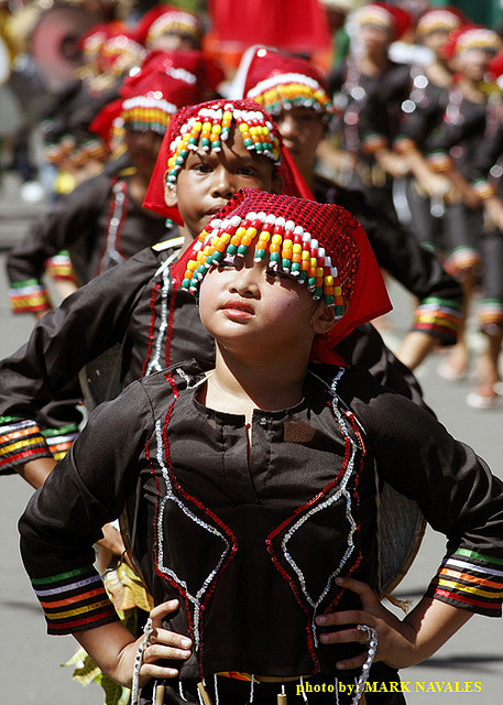 Subanen dance during colorful street dancing competition on KINABAYO Festival in Dapitan City, Zamboanga Norte